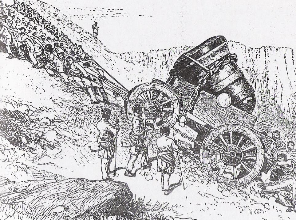 Tewodros II soliders dragging the great mortar "Sebastopol". Tewodros is outlined in the background.